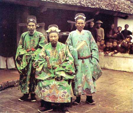 19th centery government officials of Vietnam.